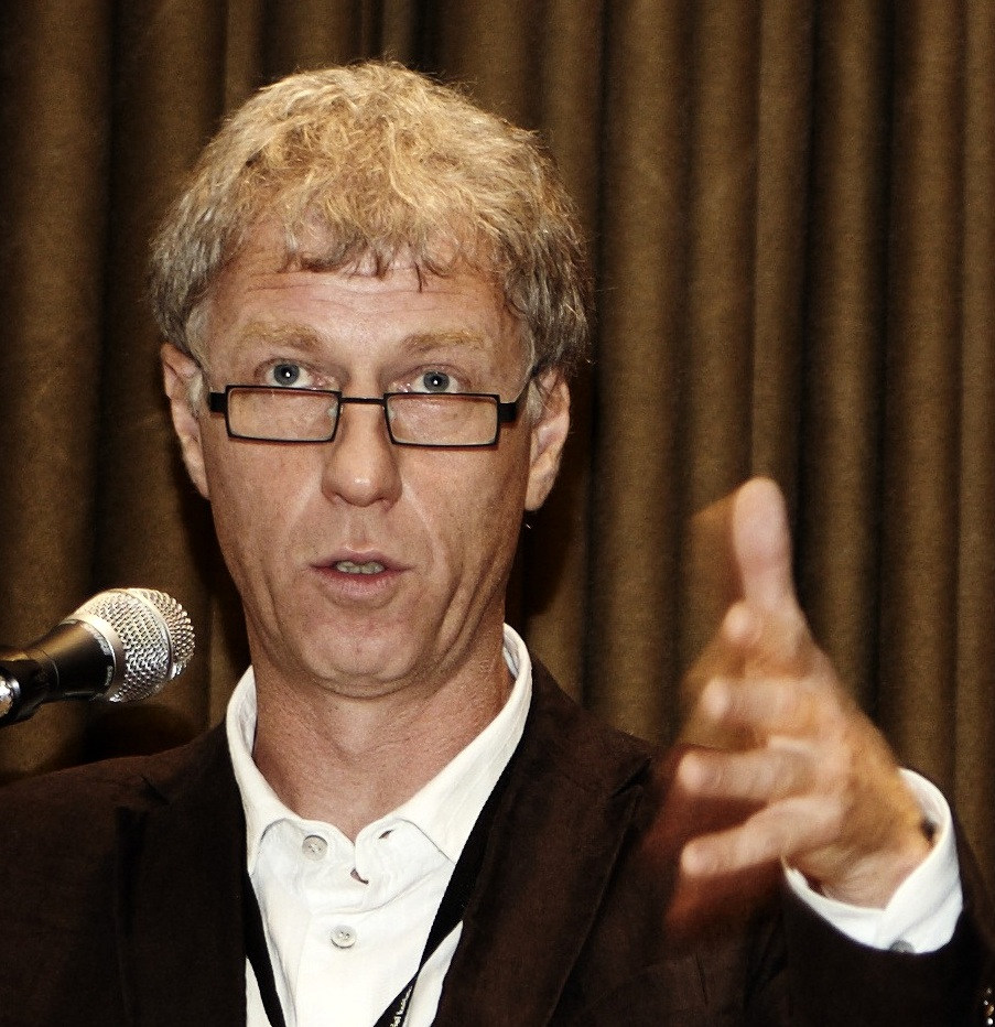 Play the Game 2011 in Cologne, Germany 3-6 October 2011. Hans Bruyninckx, Professor of International Relations and Global Governance. Obsession with rules vs. mistrust in being ruled. --- Photos taken at Play the Game 2011 by conference photographer Tine Harden. This photo is free to download and use for press or other purposes, provided both Play the Game and Tine Harden are credited. We would very much like to hear where photos are used so please send us your links. Visit our homepage at for more information